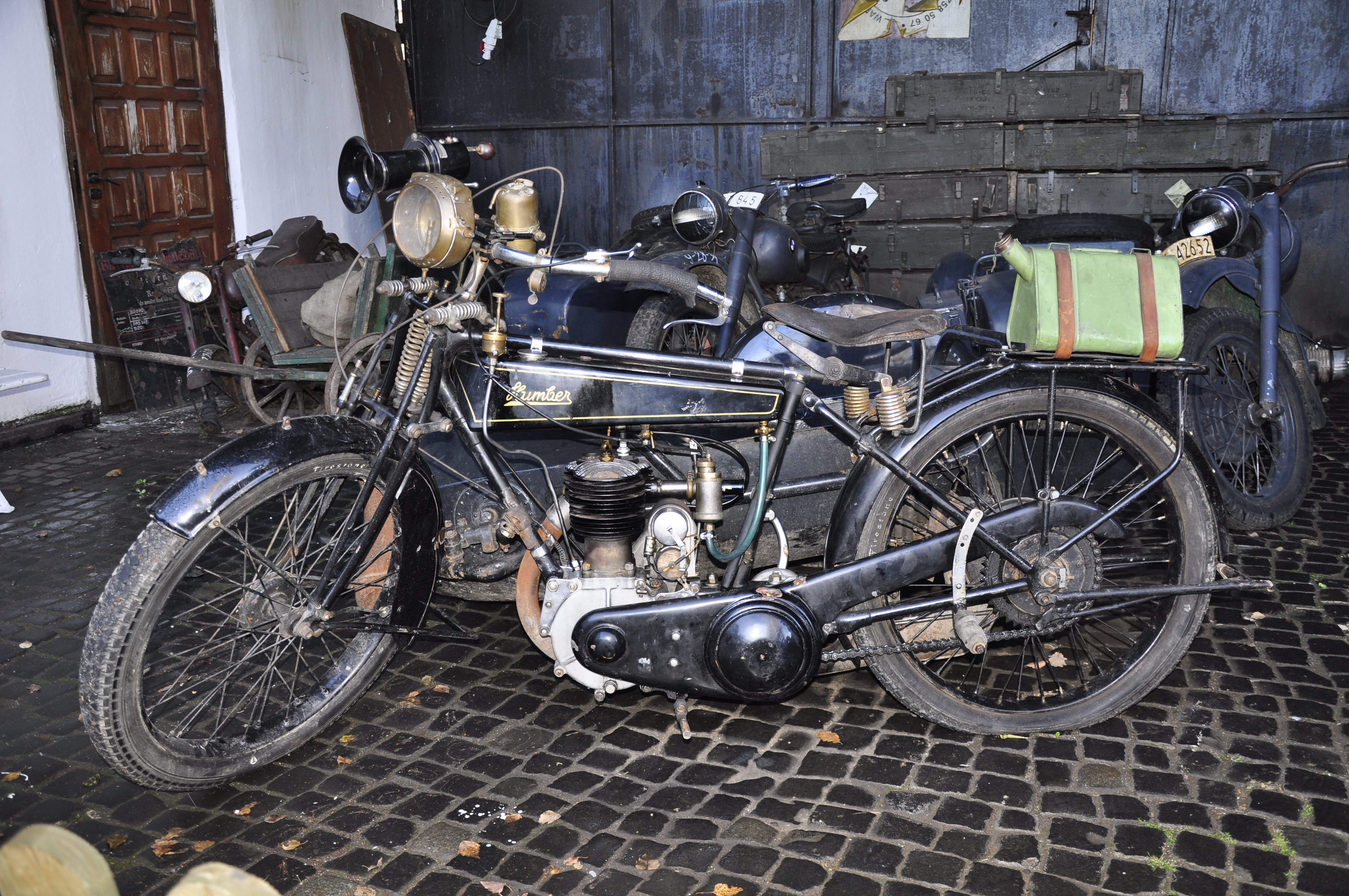 Motor Museum Otrebusy, Poland